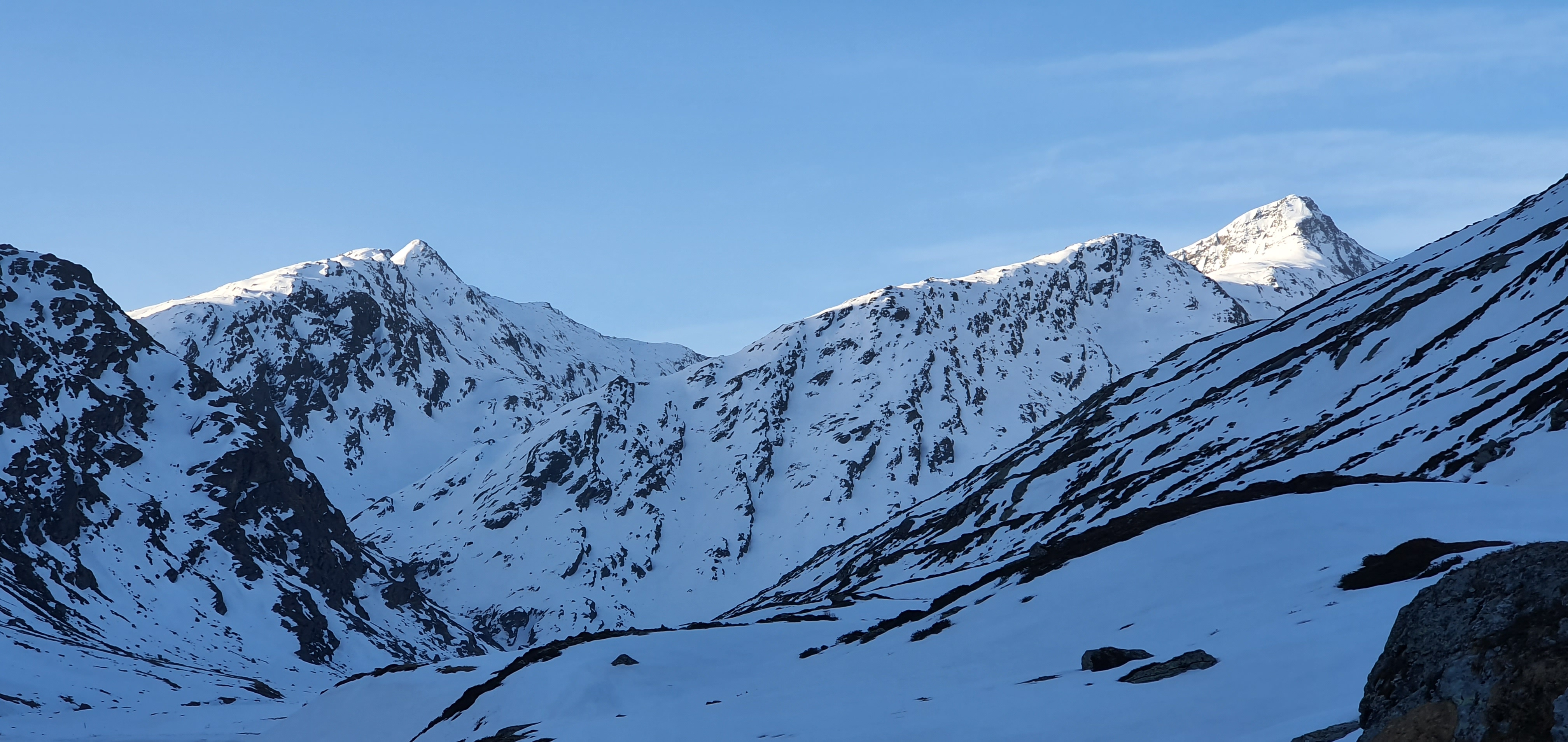 Pizzun and Pizz Gallagiun, picture taken from Val Madris (Bregaglia, Grison, Switzerland)